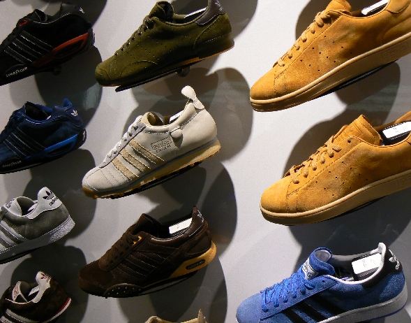 Adidas sneakers display - several left shoes.